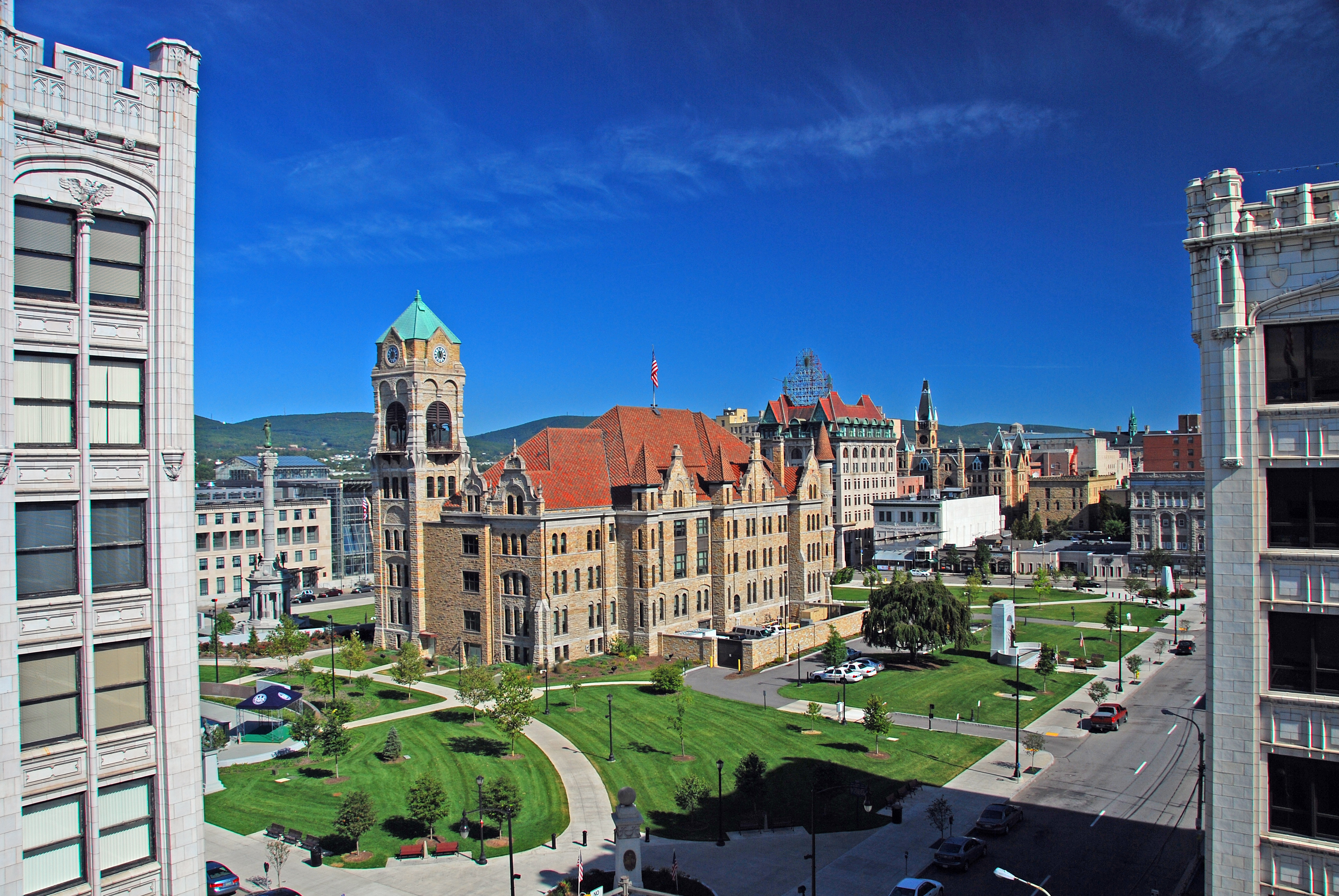 Lackawanna County Courthouse, downtown Scranton, PA